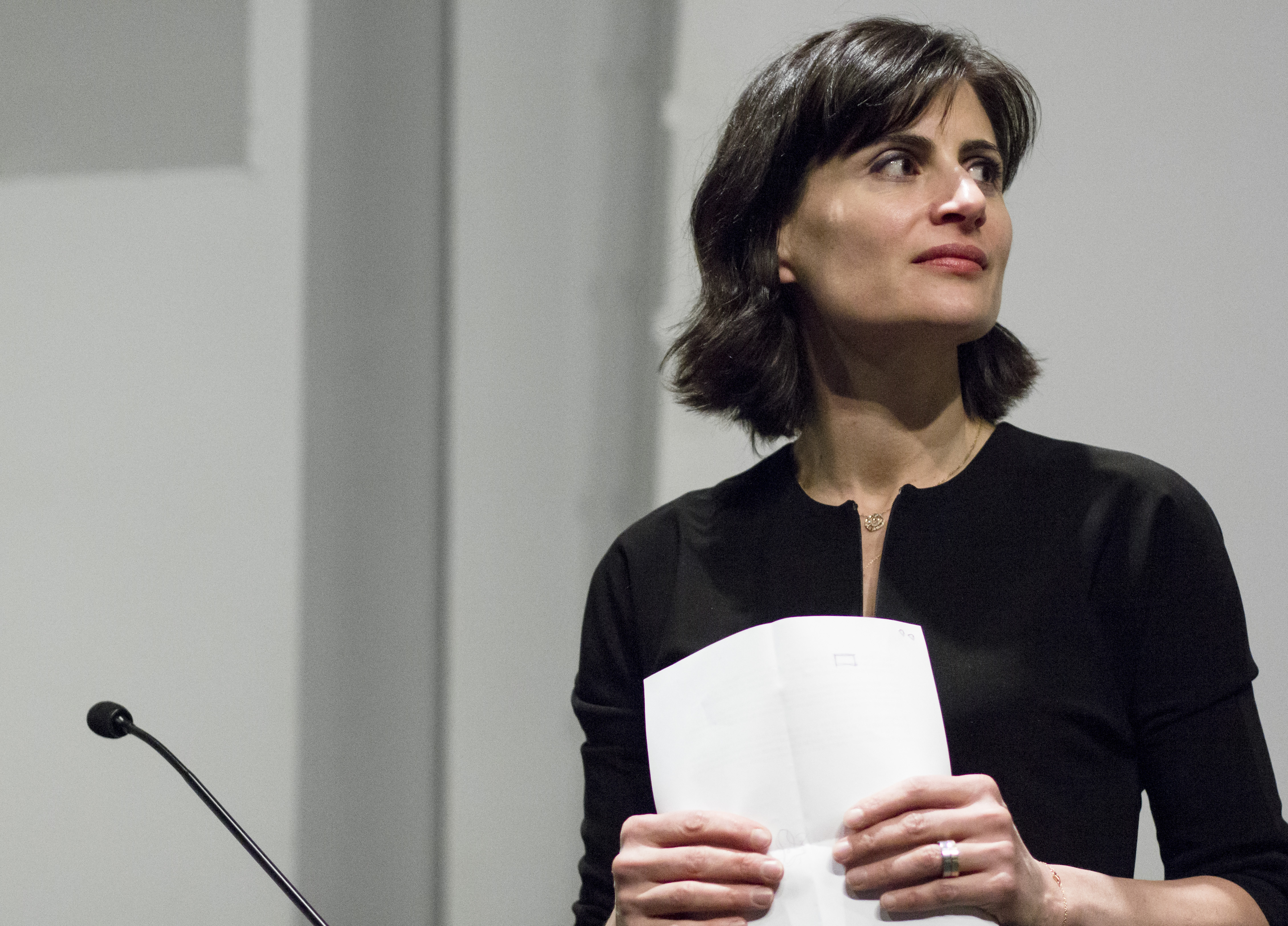 Amale Andraos at the "Rem Koolhaus and Irma Boom on Designing the 2014 Venice Biennale" Lecture at Columbia University Graduate School of Architecture, Planning and Preservation in the City of New York.